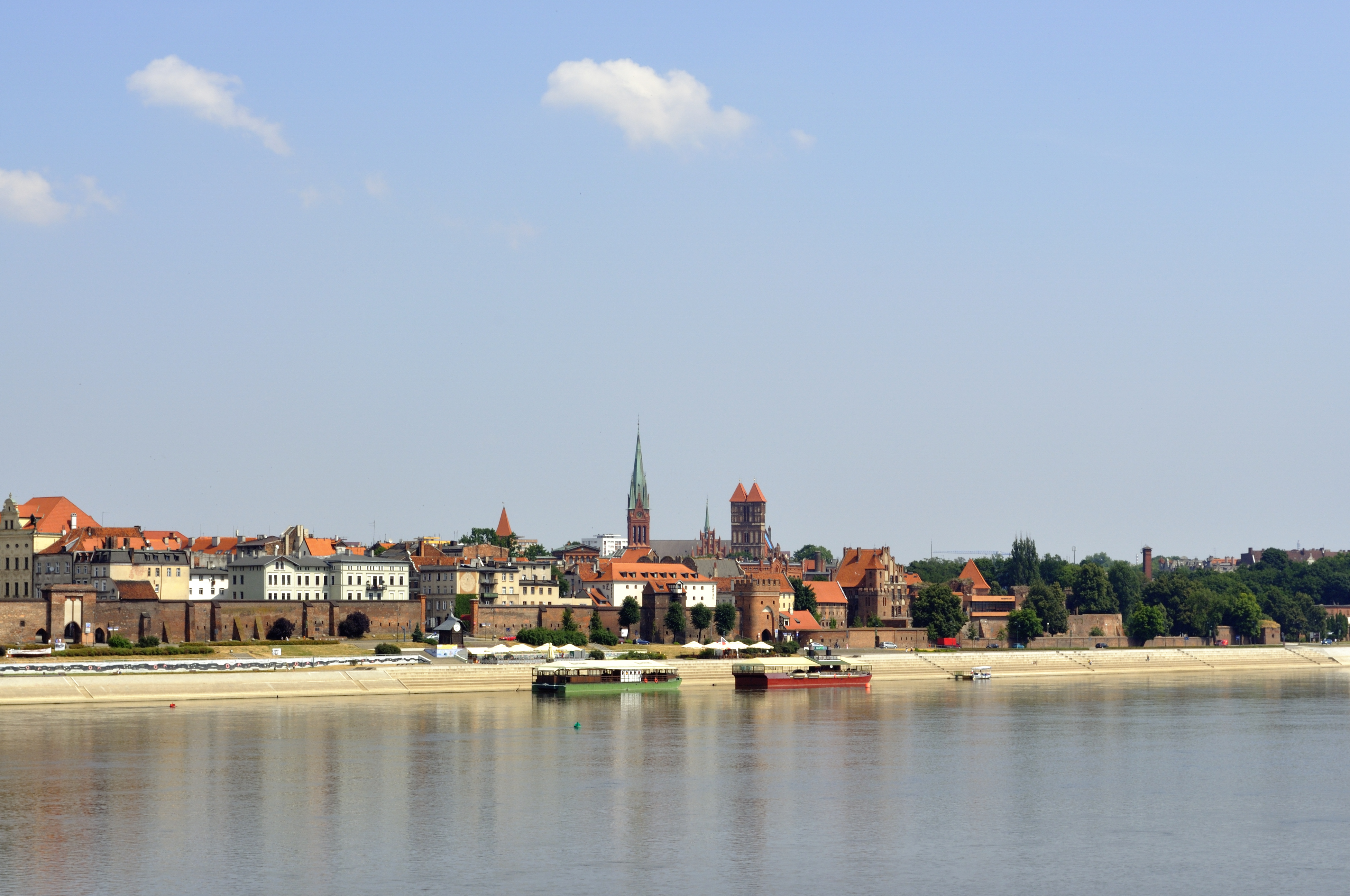 Picture taken in Toruń after Wikimania 2010 conference.